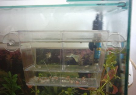 Fish hatchery